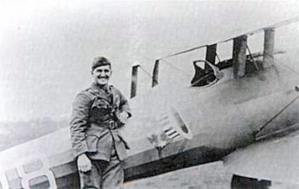 Lieutenant Douglas Campbell, 94th Aero Squadron